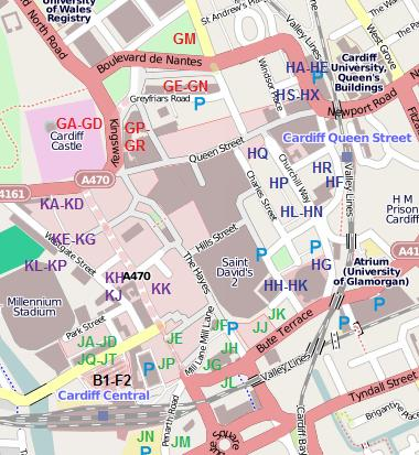 Locations of municipal bus stops in Cardiff OpenStreetMap cut-out (or derivative work based on it): without further description This cut-out may be incomplete, and may contain errors, or may be obsolete. Don't rely solely on it for navigation. Seek for the present state in original context on the OpenStreetMap wiki page